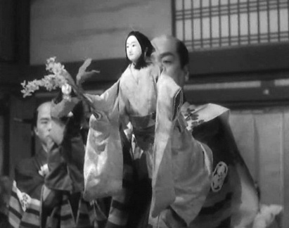 Screenshot from The Life of Oharu, 1952 film.